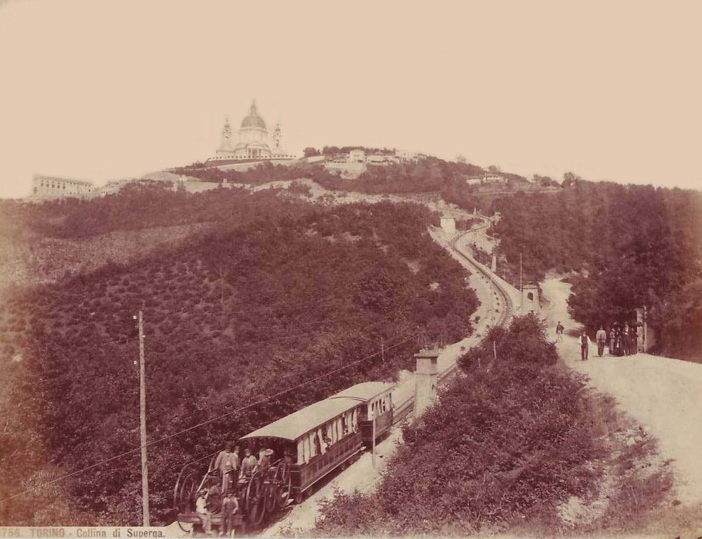 Giacomo Brogi (1822-1881) - "Turin - Superga Hill". Catalogue # 3756.